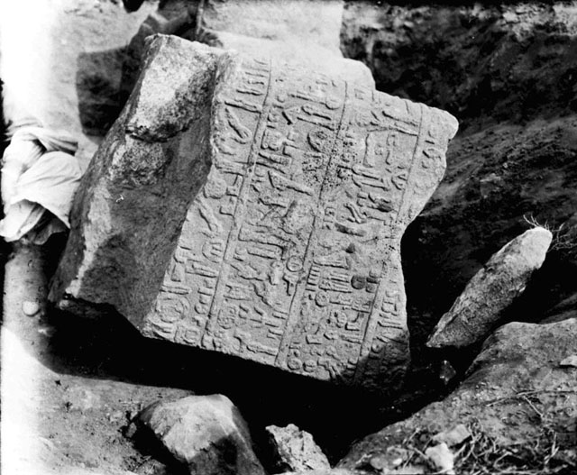 Tell Ahmar, Hittite inscriptions, Stone 3 [Fragment of stone with Hittite inscription running continuously over corner].